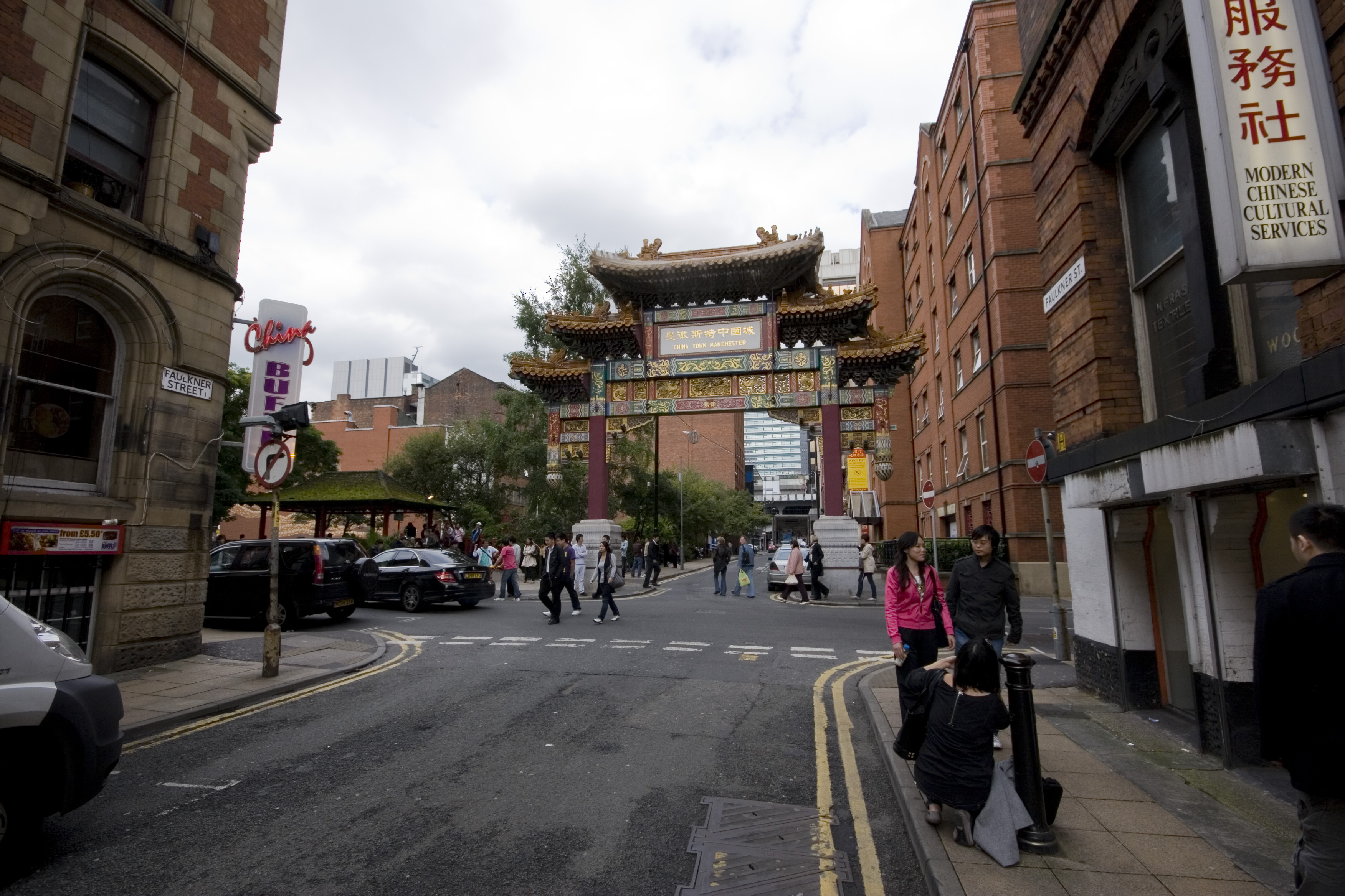 The arched entrance into Chinatown, in Manchester, UK